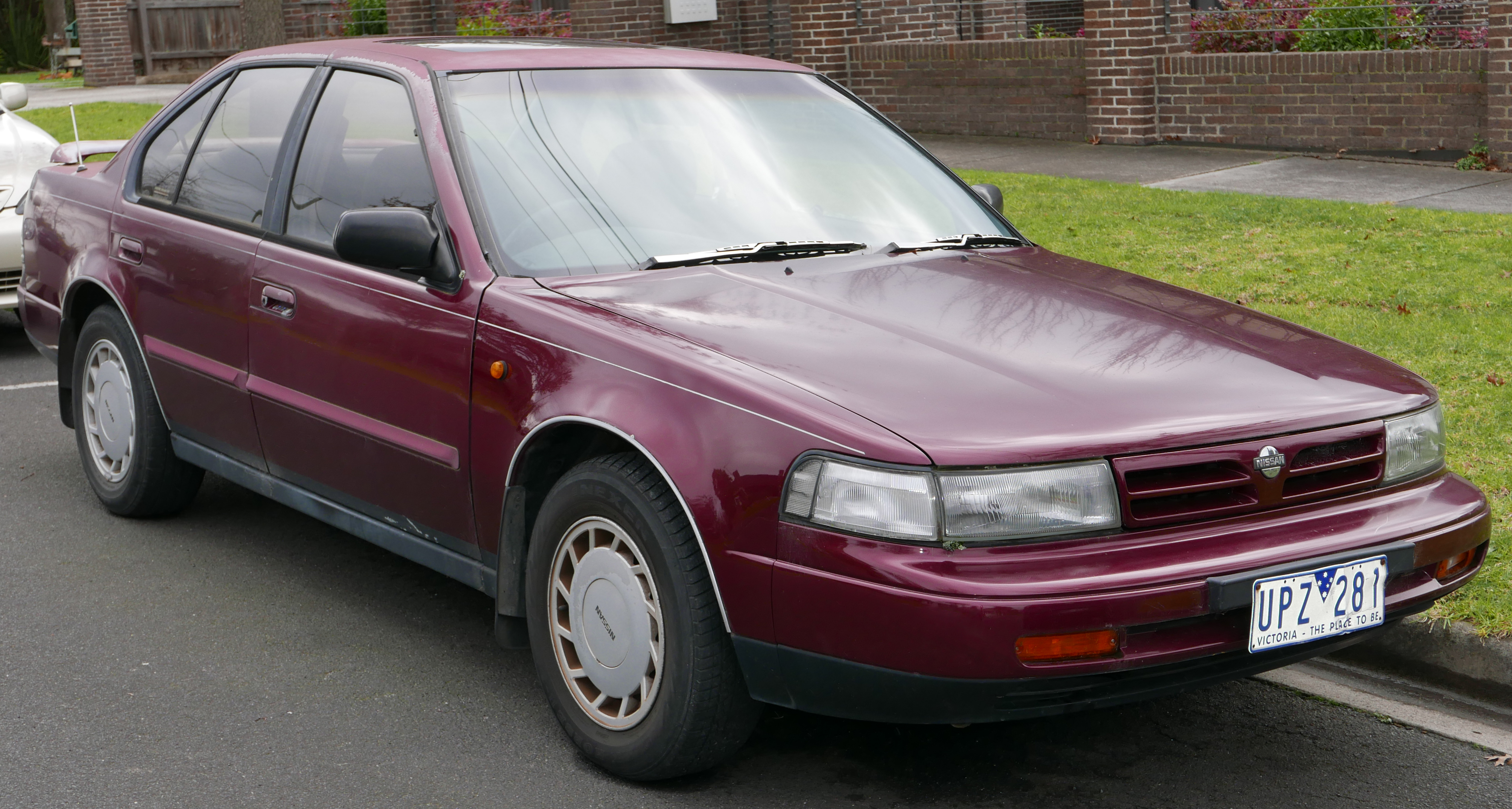 1990 Nissan Maxima (J30) Ti sedan. Photographed in Box Hill North, Victoria, Australia. Vehicle registration enquiry results Jurisdiction Victoria Registration UPZ281 Chassis code JN100HJ30A0000288 Engine code VG30679090W Compliance date 1990-04 Year of manufacture 1990